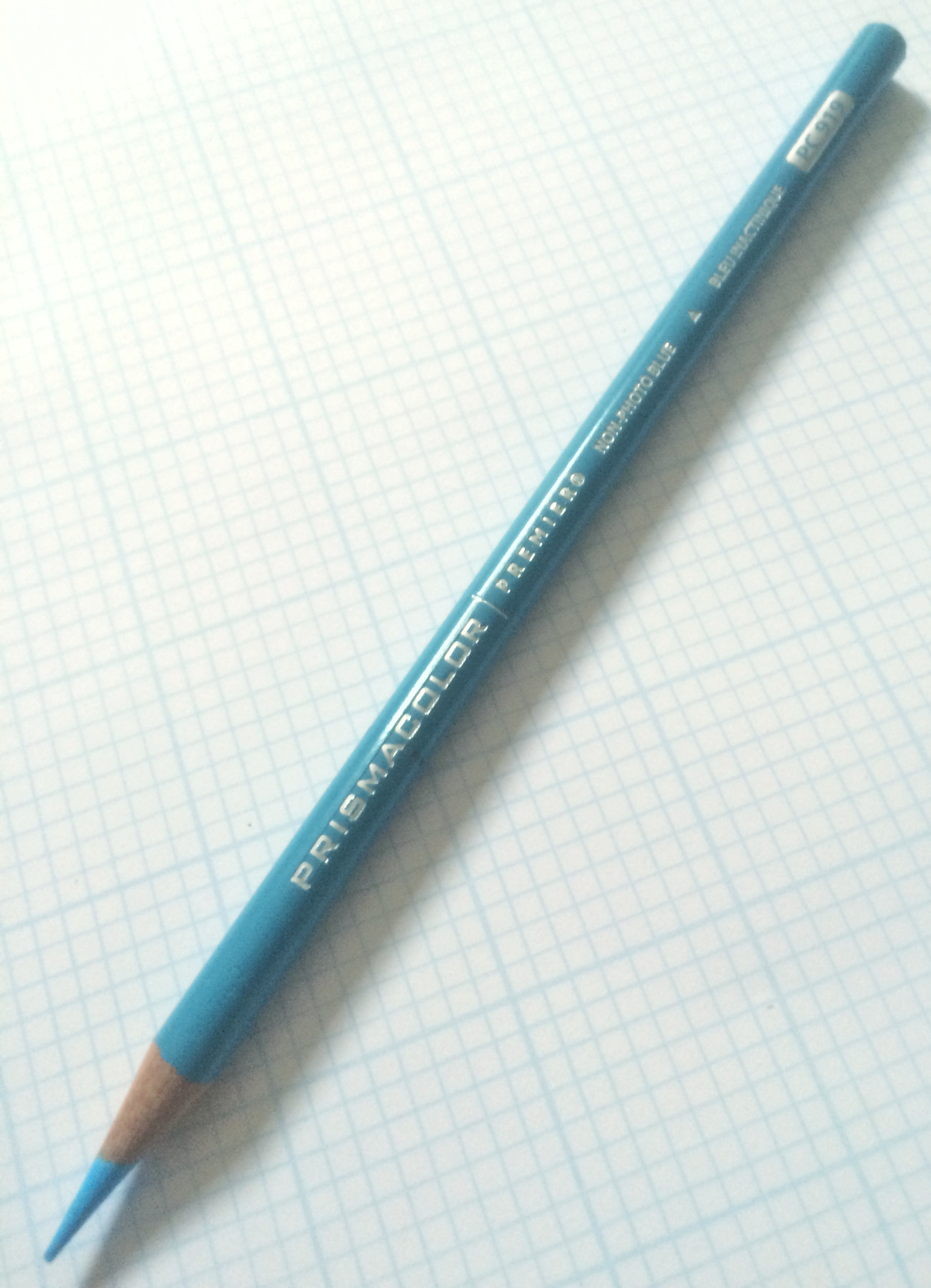 A Prismacolor non-photo blue colored pencil on 8x8 vellum graph paper. Photo produced by Amy Lavine for Sketch Hudson, please use with attribution. For more information